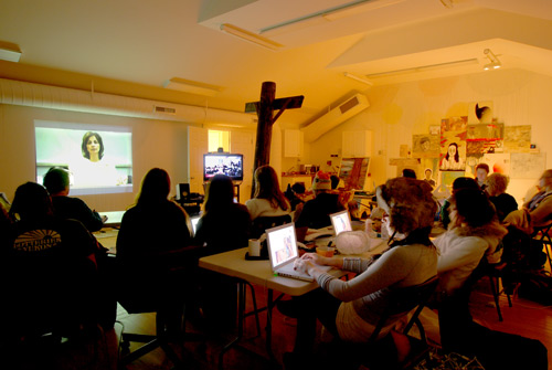 Video conference session between SOVA and OCAD University.